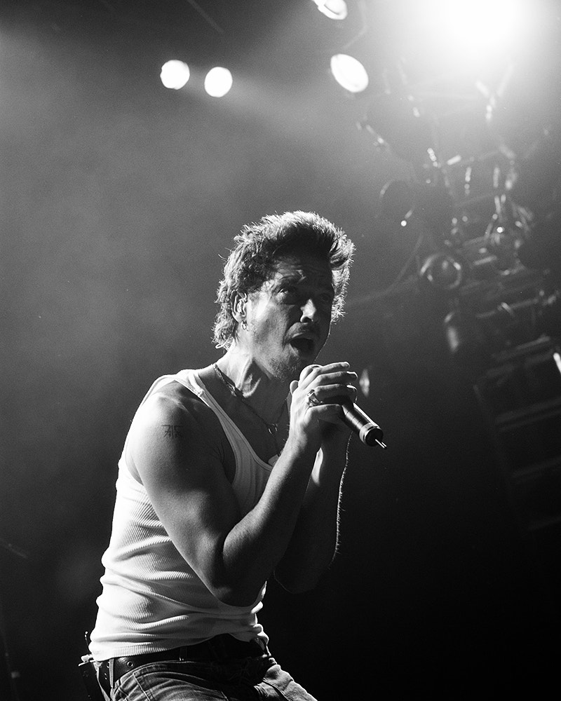 500px provided description: Chris Cornell [#soundgarden ,#audioslave ,#chis cornell]